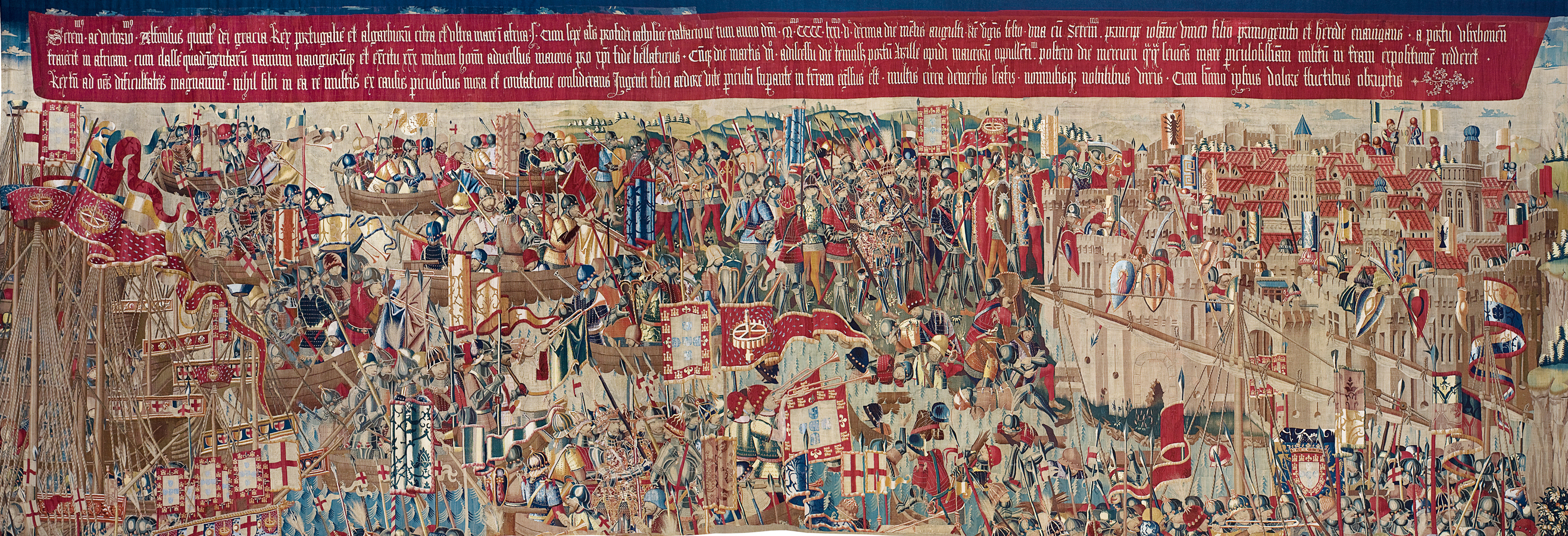 Landing at Asilah, from the Pastrana series of tapestries